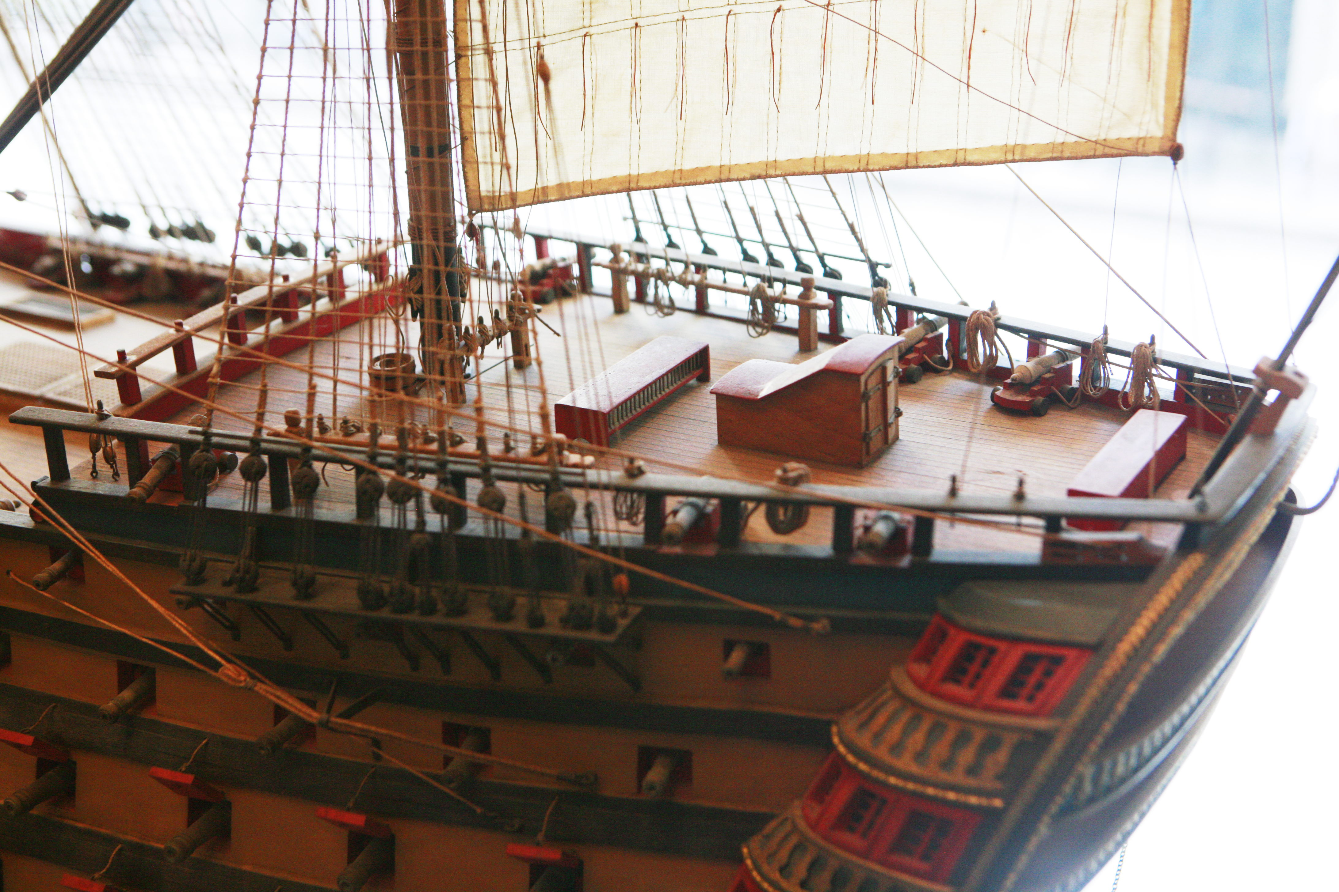 1/48 scale model of the Océan class 120-gun ship of the line Commerce de Marseille On display at Marseille naval museum